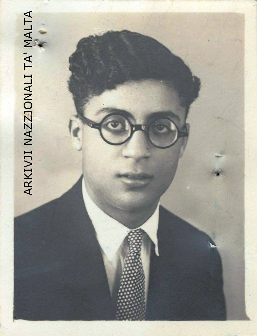 Carmelo Borg Pisani’s passport application before leaving to Rome for his artistic studies (1932). Since Carmelo was only 17, the application was submitted by his father Gaetano. Malti: L-applikazzjoni għall-passaport biex Carmelo Borg Pisani imur Ruma jistudja l-arti (1932). Peress li Carmelo kellu biss 17-il sena, l-applikazzjoni saret minn missieru Gaetano.